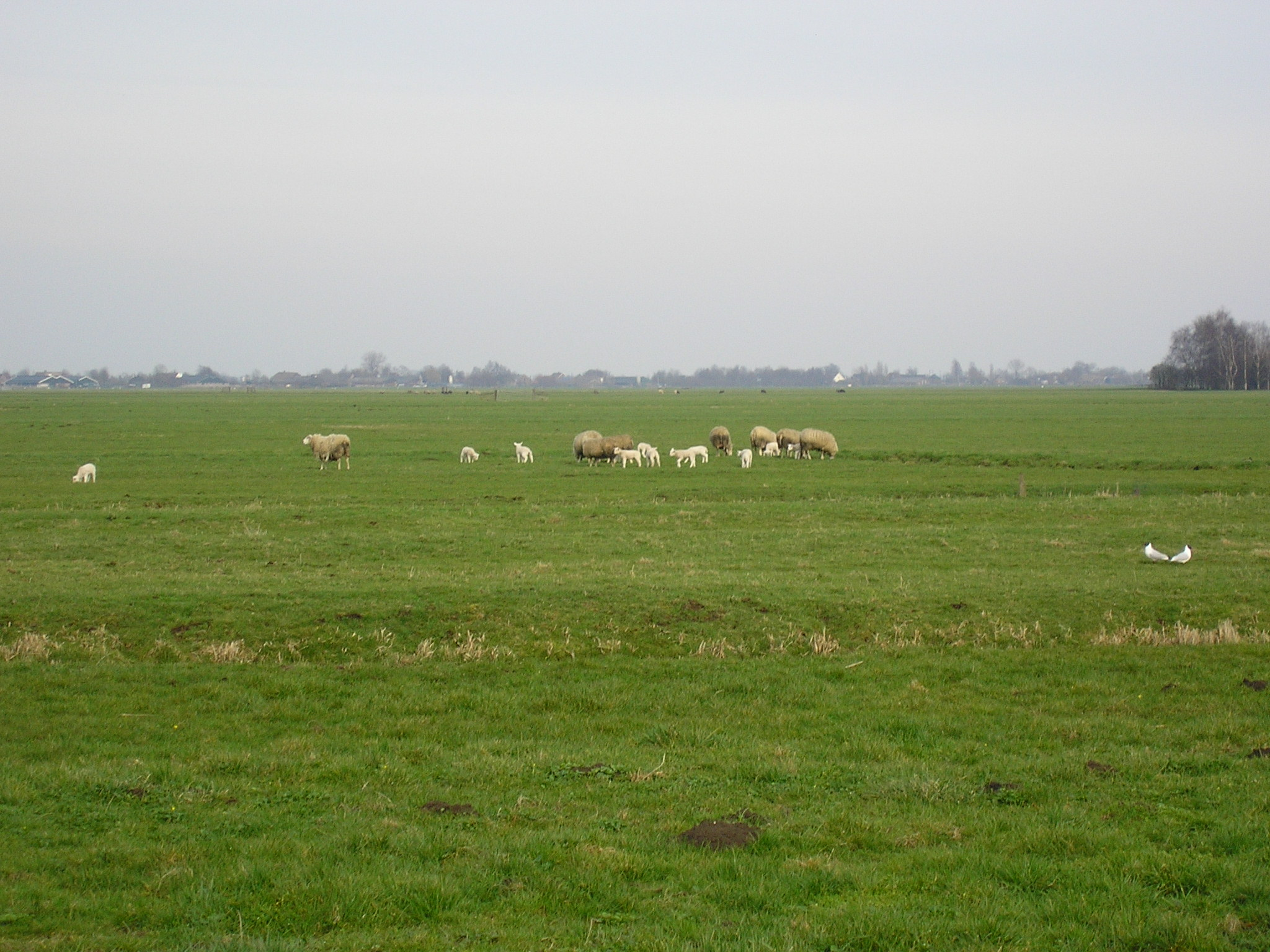 The polder of the community of Vlist in the Netherlands. In the distance by the houses runs the river Vlist.